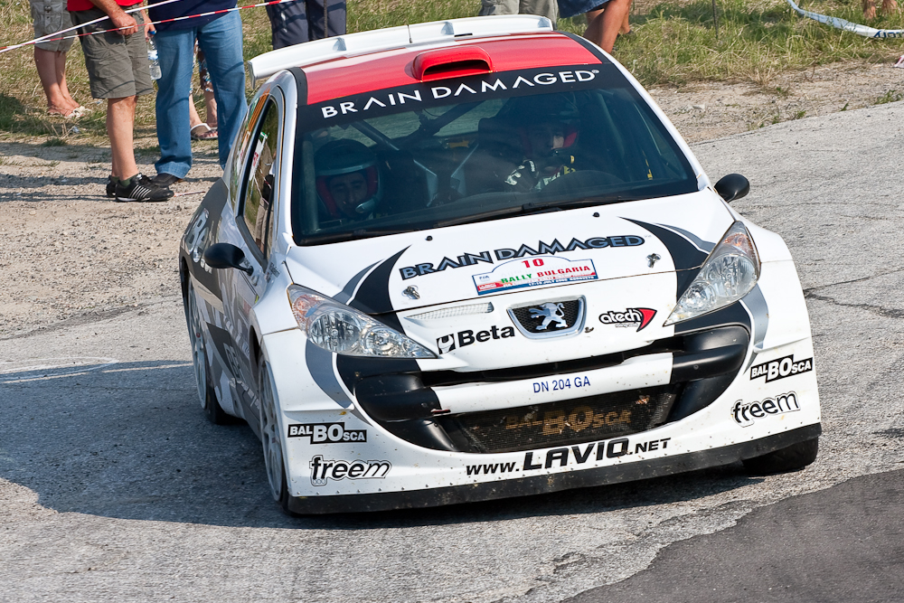 The multinational team is cornering in Rally Bulgaria SS6 Slavovitsa. One day before the tragic accident, they were keeping 11th position.